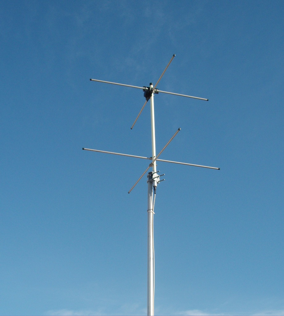 A turnstile antenna used for reception of weather satellite data on 137 MHz. It consists of two identical dipole antennas at right angles, fed in quadrature. This type of antenna is used because it receives circularly polarized radio waves transmitted by the satellite. Circular polarization is used for satellite communication because it is insensitive to the relative orientation of the transmitting and receiving antenna elements.